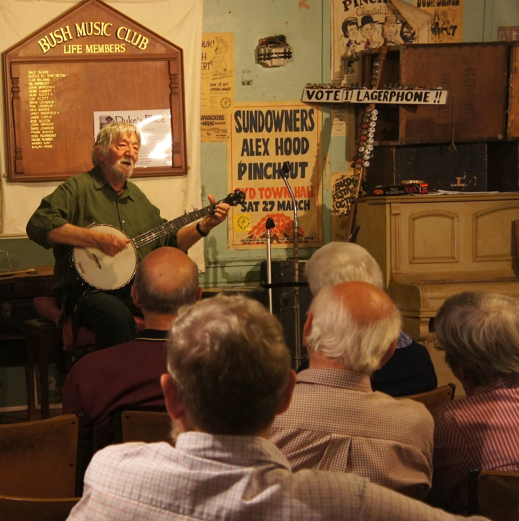 Alex Hood, one of the founders of the Bush Music Club, performs in the Club's Diamond jubilee year. Photographer: Sandra Nixon.